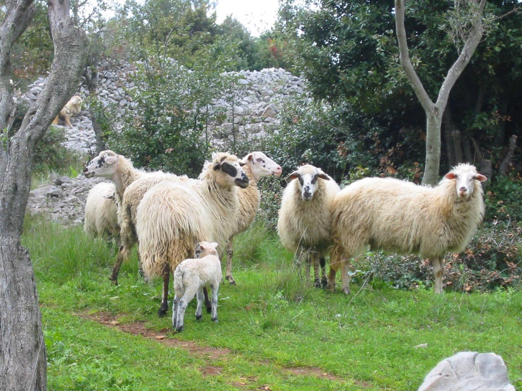 Sheep at Lošinj, Croatia photo:Ziga 10:58, 16 April 2007 (UTC)